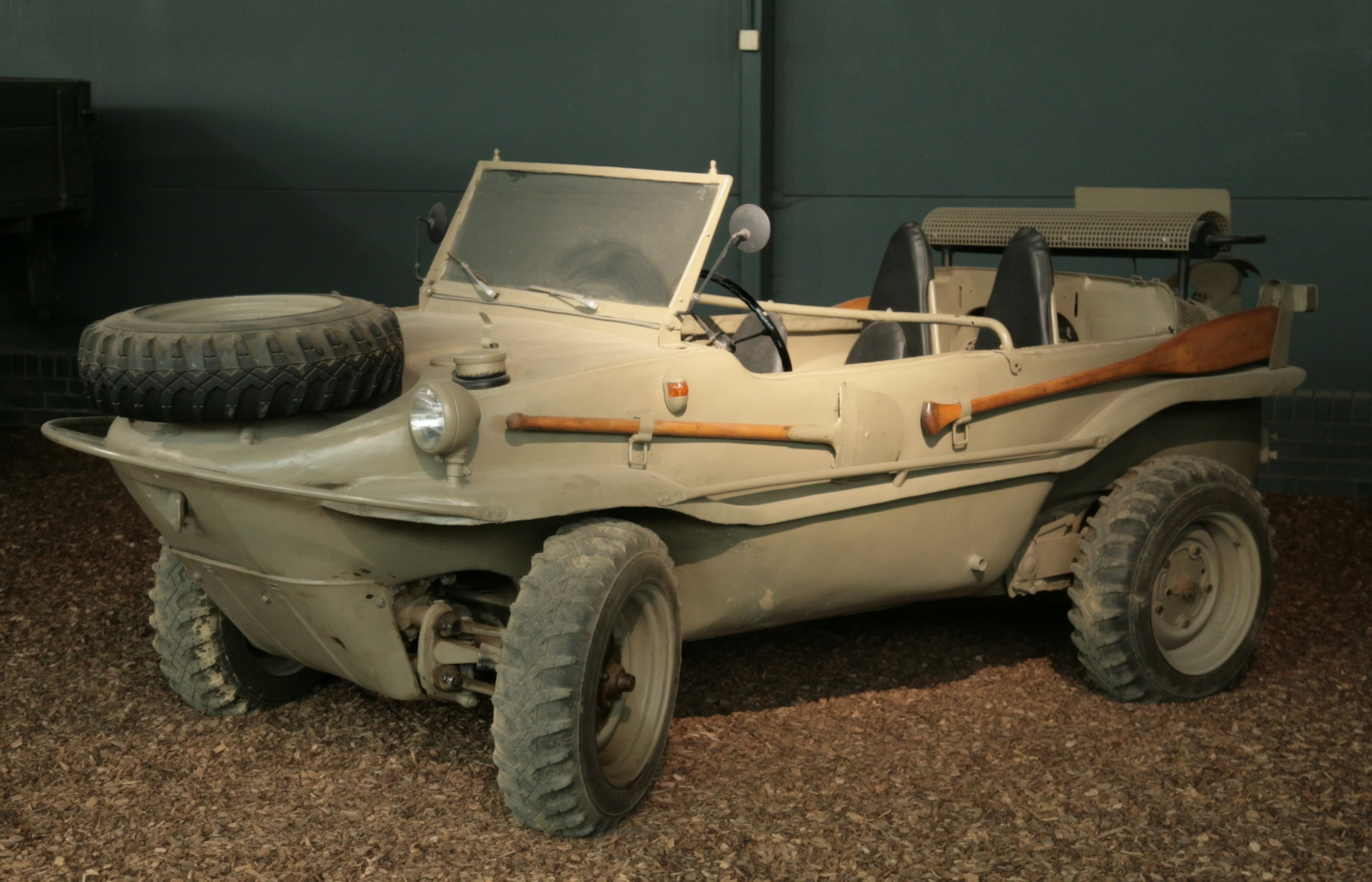 A Schwimmwagen at RAF Duxford in the UK.